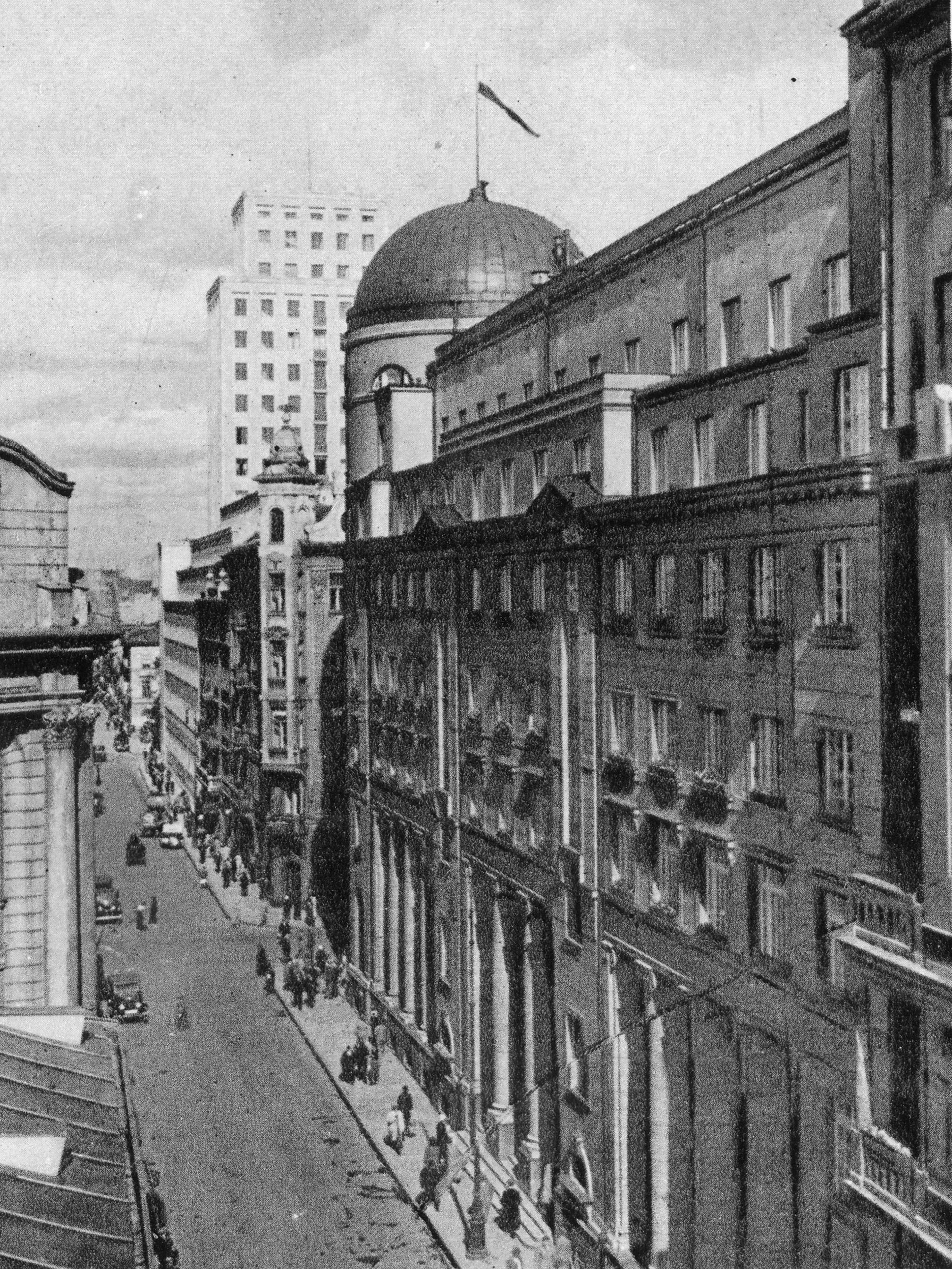 Świętokrzyska Street in Warsaw